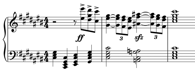 The famously dissonant chord and cadence occurring at the end of Salome's monologue at the end of the opera Salome (1905) by Richard Strauss. Created using Sibelius.